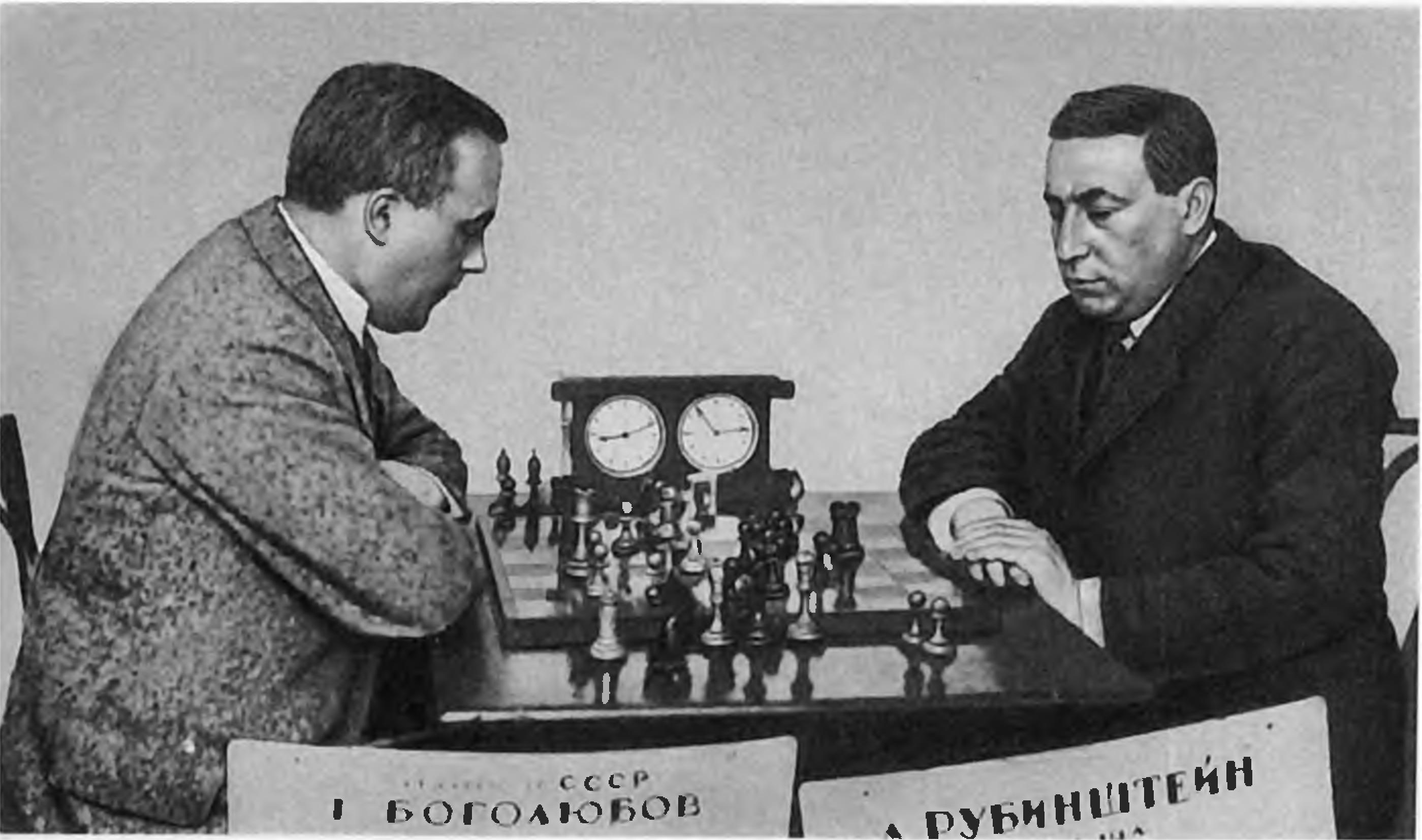 E. Bogoljubov - A. Rubinstein, Moscow 1925 chess tournament, 3nd round (12th november)